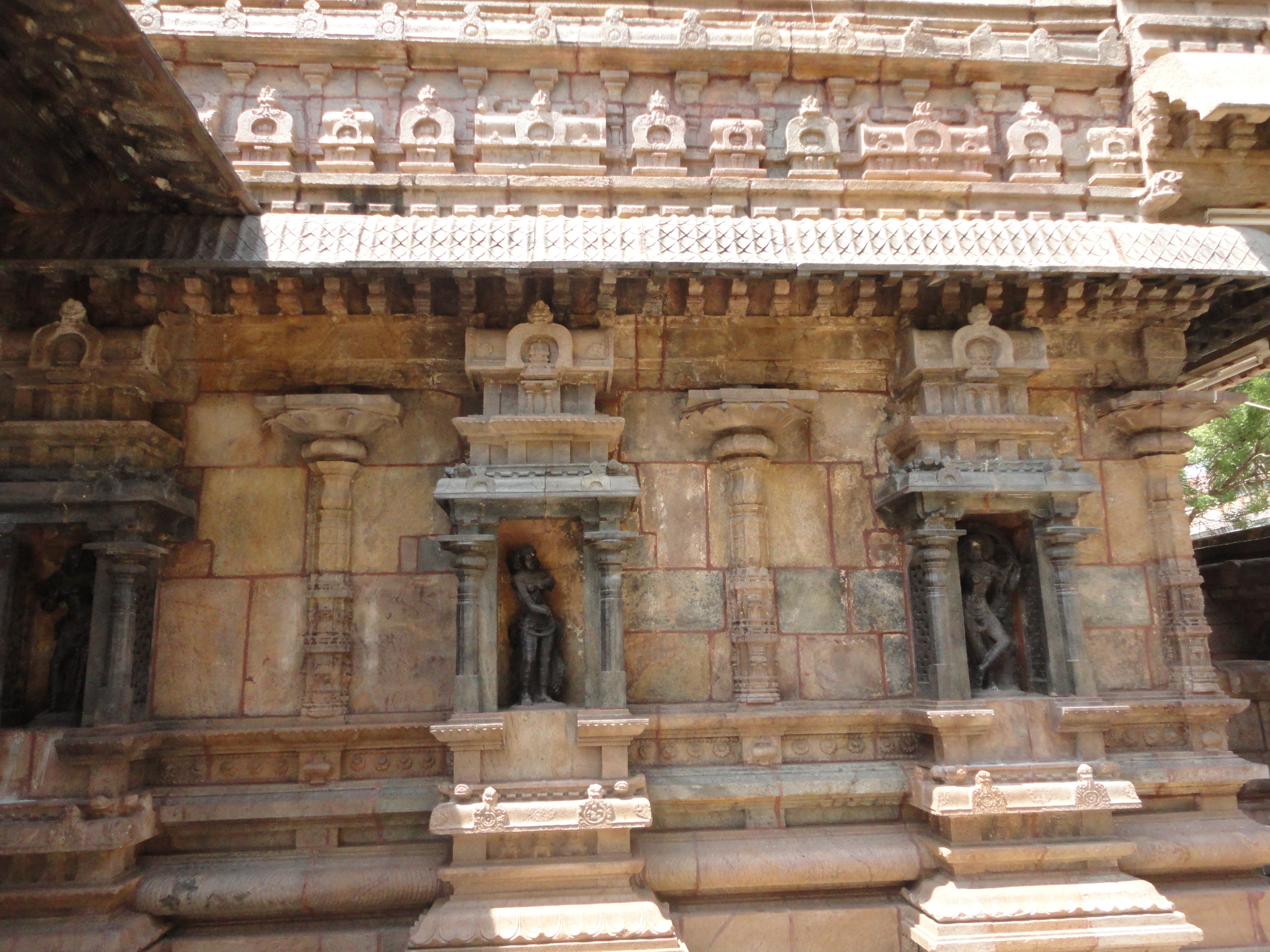 The picture shows the intricately carved stone sculptures that are found on the outer wall of the sanctum of Vellai Vinayagar Shrine at the Thiruvalanjuli Kabardeeshwarar Temple in the village of Thiruvalanjuli in the Kumbakonam taluk of Thanjavur district, Tamil Nadu, India.